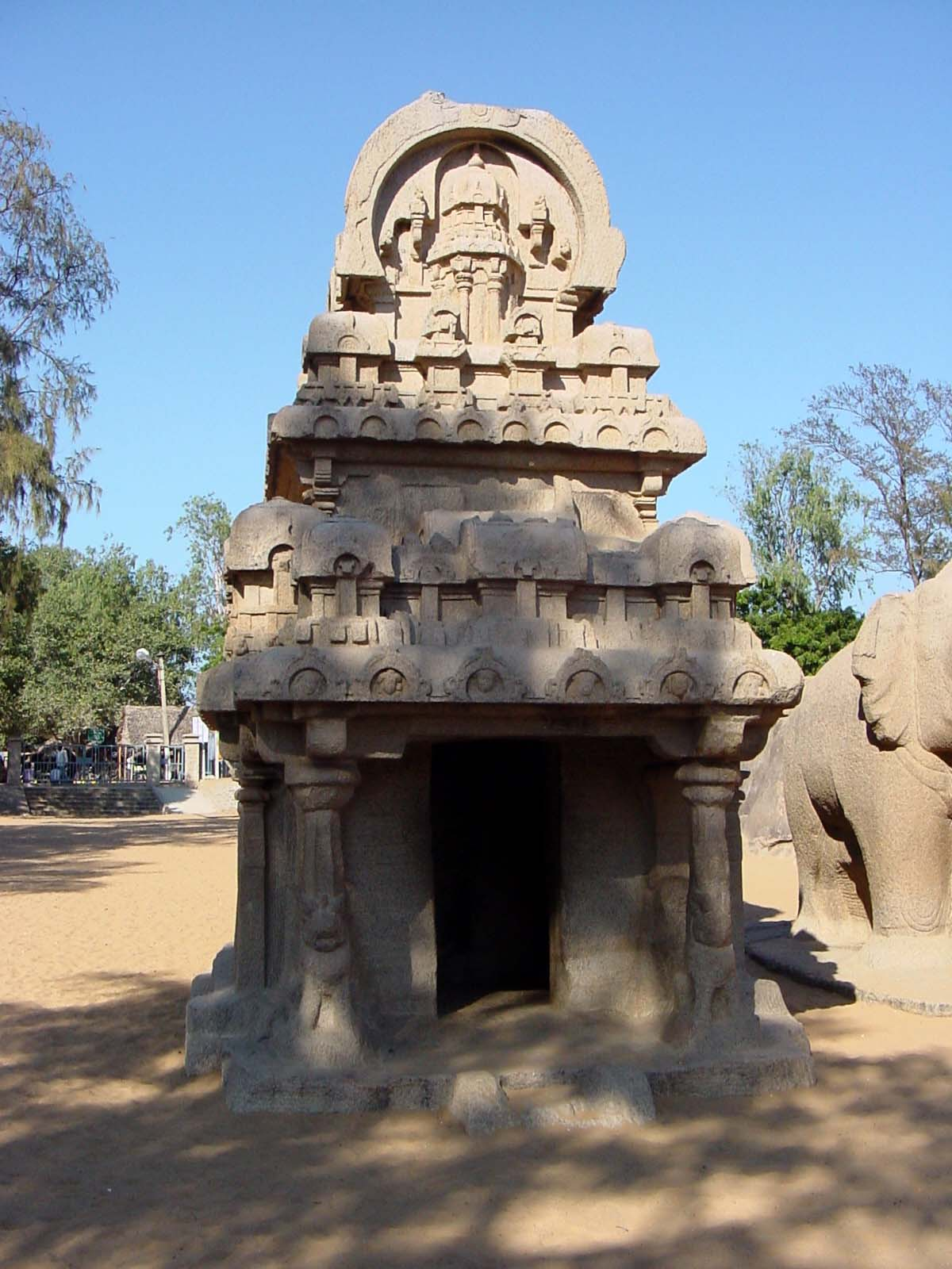 Nakula Sahadeva Ratha. Pancha Rathas, Mamallapuram This south-facing shrine, with barrel roof, is apsidal in shape.